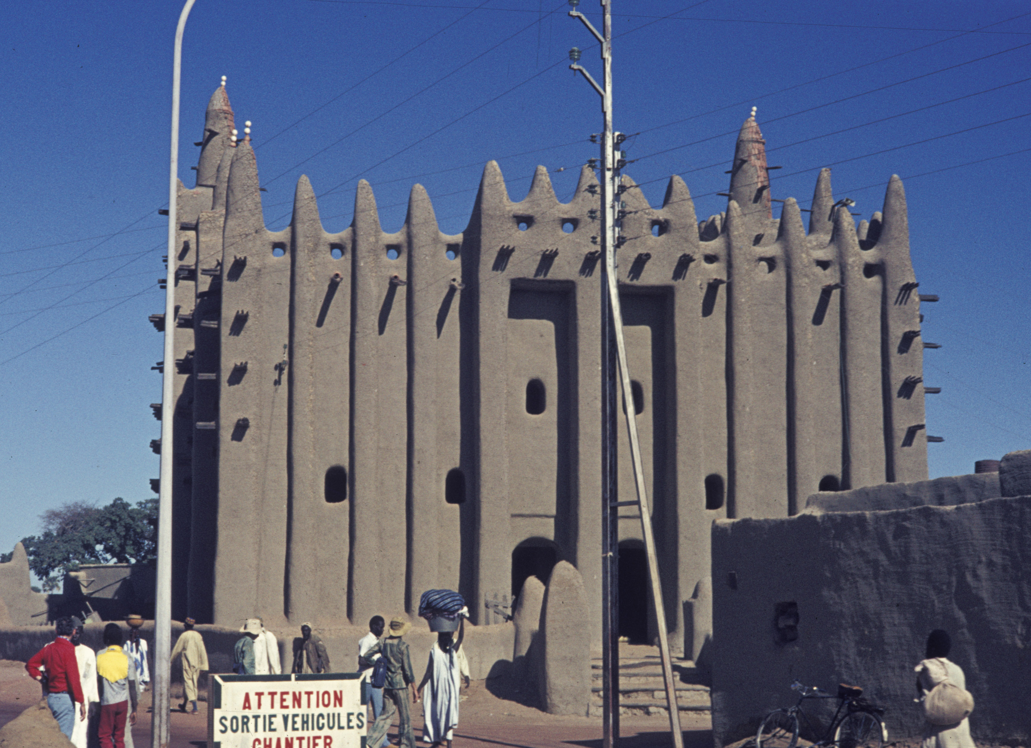 Mud building with towers — Mali.